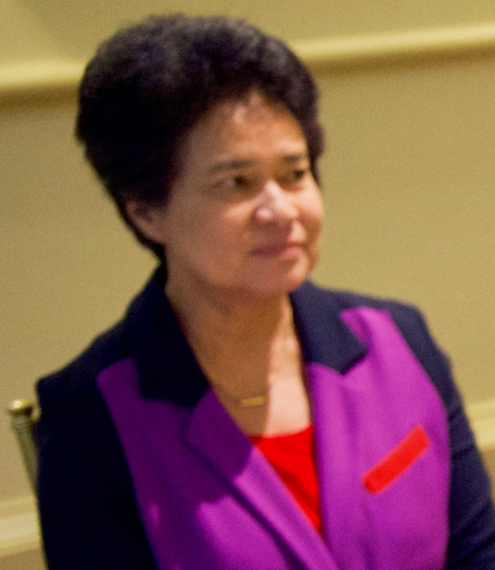 U.S. Secretary of State John Kerry sits across from Kem Sokha, Acting President of the Cambodia National Rescue Party and the country's opposition leader, and Tioulong Sumuara, Member of Parliament, at the Raffles Hotel in Phnom Penh, Cambodia, on January 26, 2016, at the outset of a meeting following a series of conversations with national government leaders.